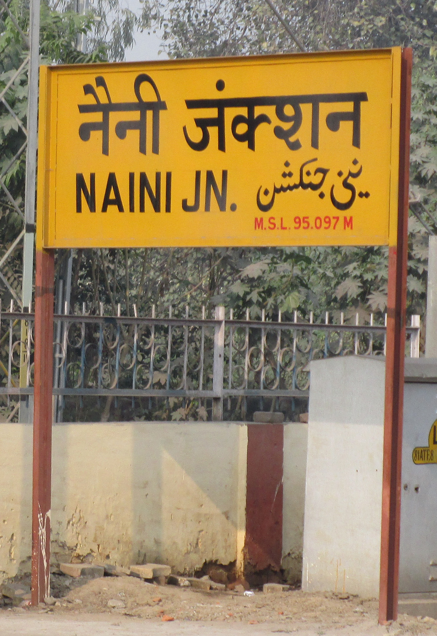 Naini Railway Junction Station nameplate at Allahabad, India.